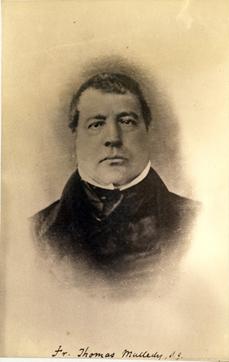 Daguerreotype of Rev. Thomas F. Mulledy, SJ, president of Georgetown University